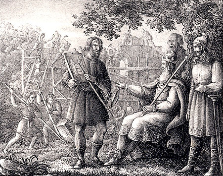 Captioned as "Yngve Frey bygger Gamla Upsala tempel", according to the source page. Etching by Hugo Hamilton, depicting Yngvi-Freyr building the Uppsala temple. Original image size approximately 17 x 22 cm.